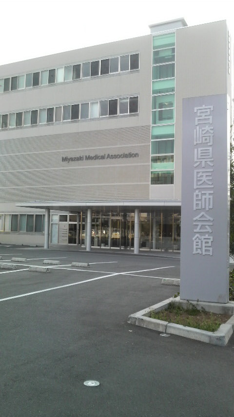 Japan Medical Association in Miyazaki